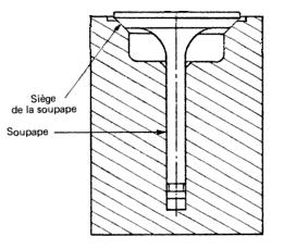 Valve Seat